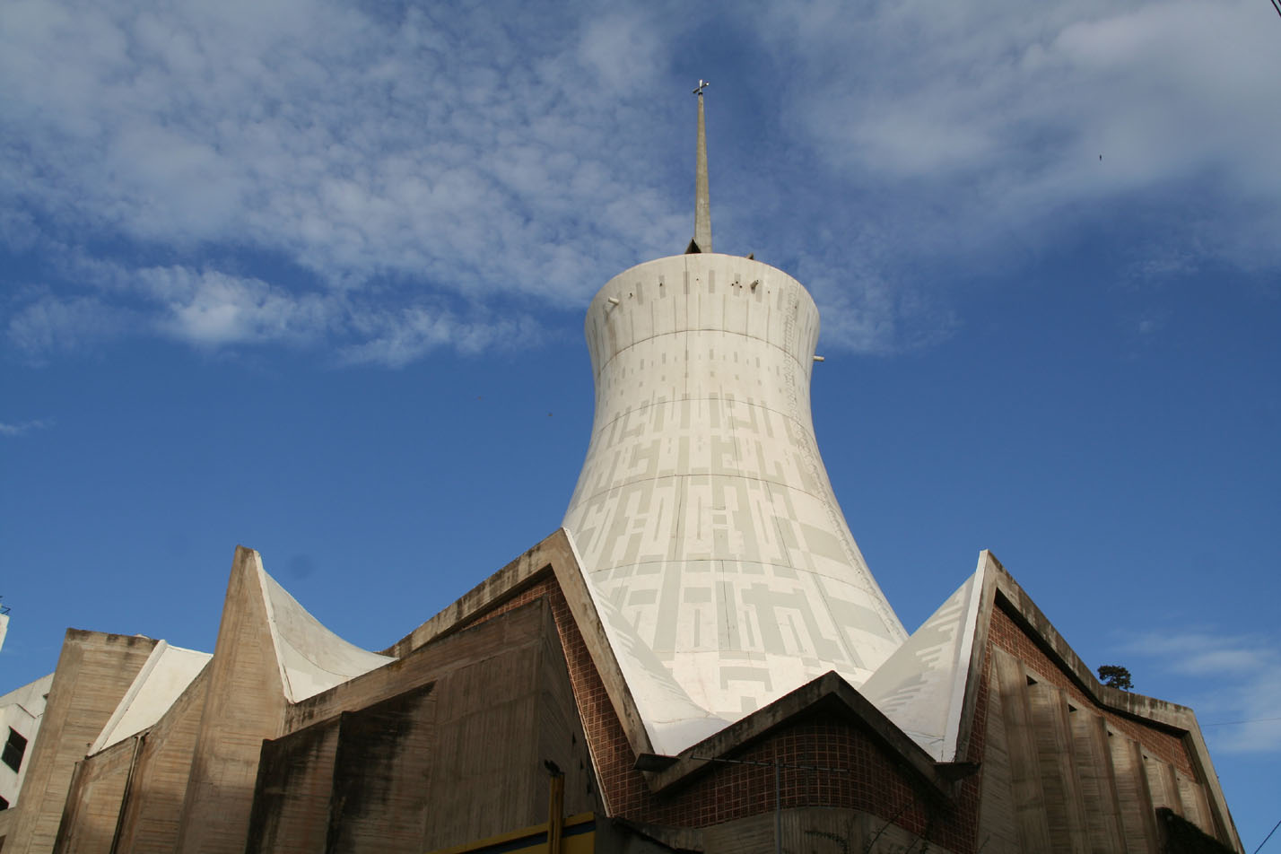 The Sacred Heart Cathedral of Algiers, started to built in 1956.